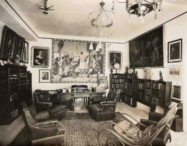 Herzl\'s study at his house in Vienna.